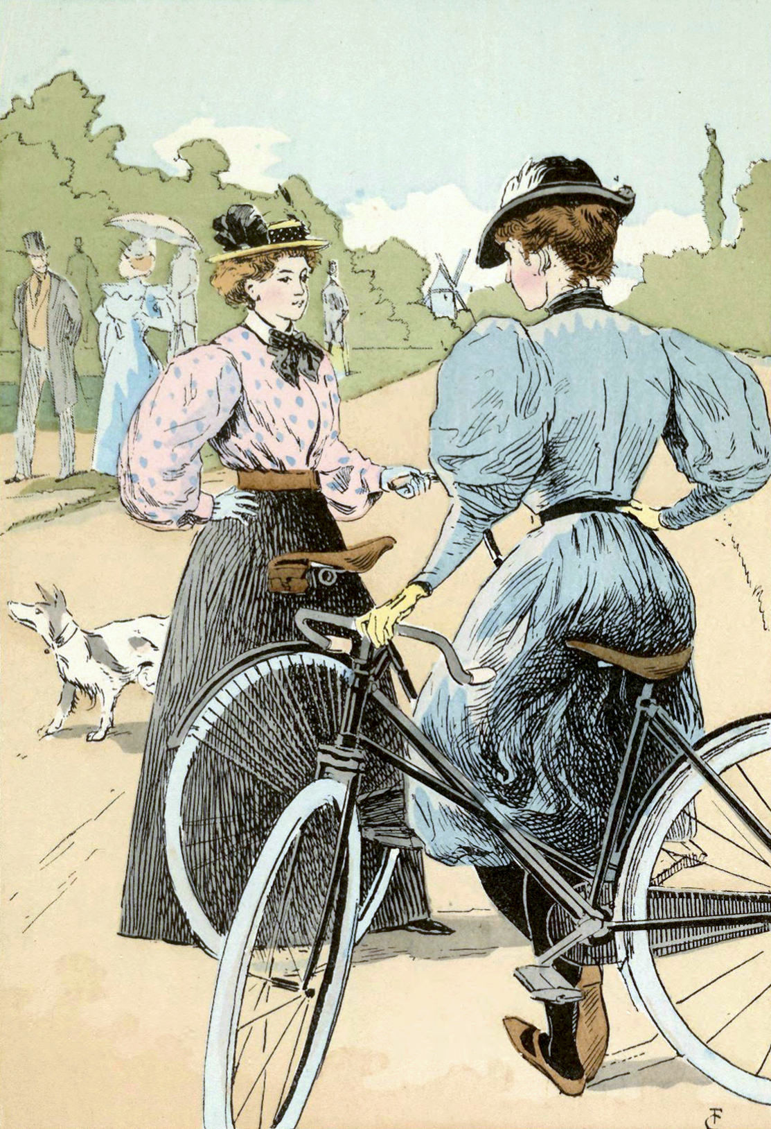 The woman holding the bicycle is wearing a short dress over dark leggings. Her dress retains the style of the epoque, with a sharply accentuated, corseted waist, a very high collar and billowing, leg of mutton sleeves. The woman on the left wears an English tailored suit. Her skirt is narrow through the hips and widens through the hem. Her blouse has fairly wide sleeves and a very high collar. Both women's hats are perched on top of their heads, most likely held down by hat pins. Abstract sources: Boucher, François. 20,000 Years of Fashion. New York: Harry N. Abrams, Inc, 1967. Ruppert, Jacques. Le Costume Français. Paris: Flammarion, 1996.